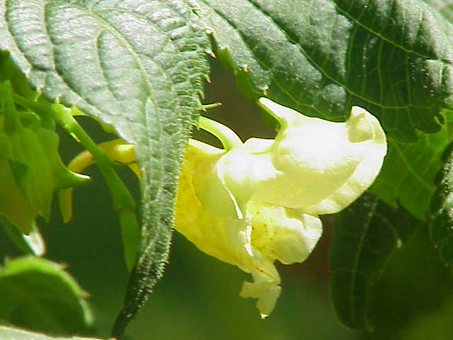 Species: Impatiens scabrida Family: Balsaminaceae Image No. 3